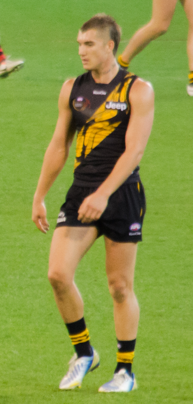 Richmond and Essendon players during the Dreamtime At the 'G match in 2013